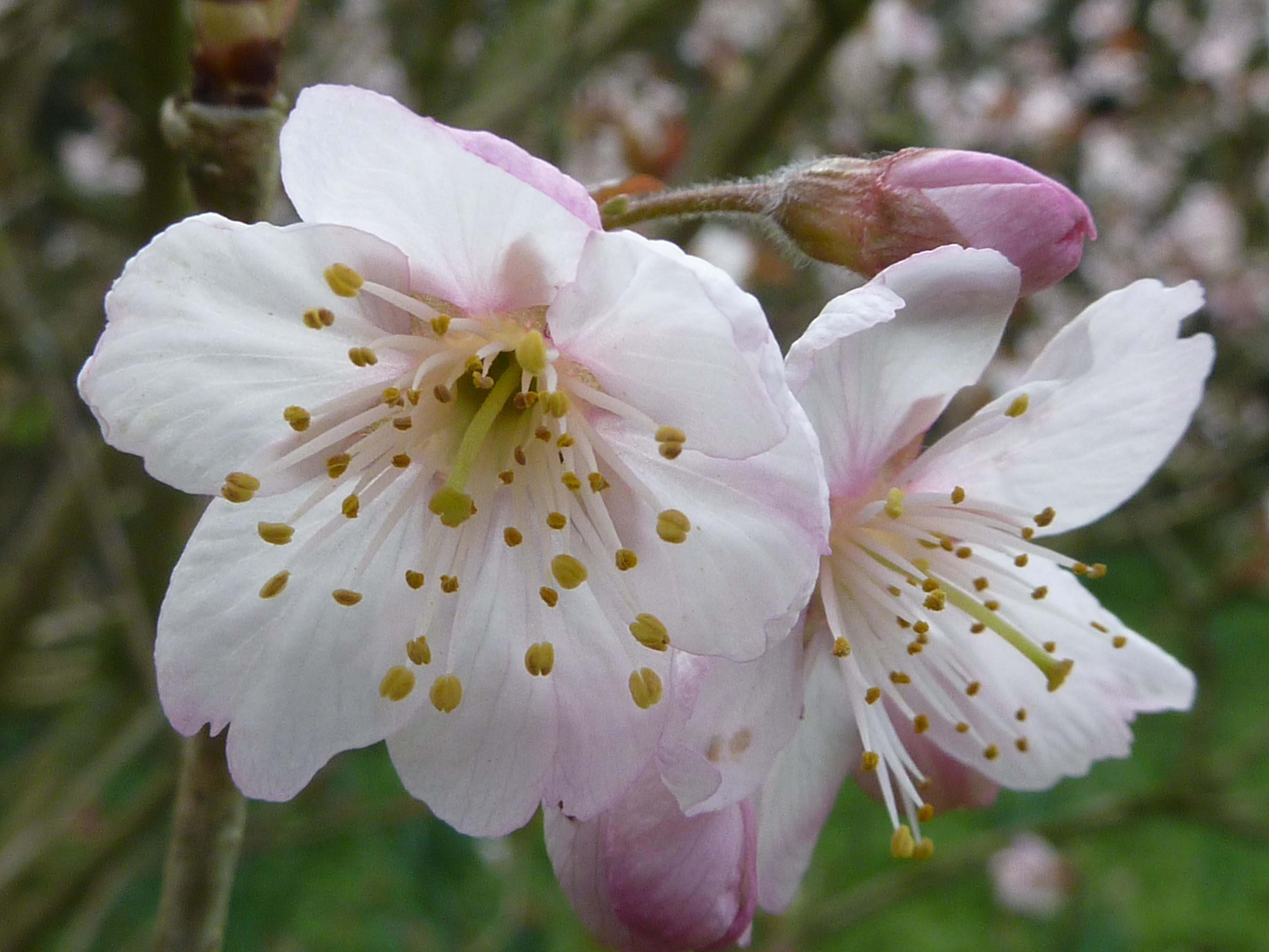 Taken in the Cambridge University Botanic Garden.